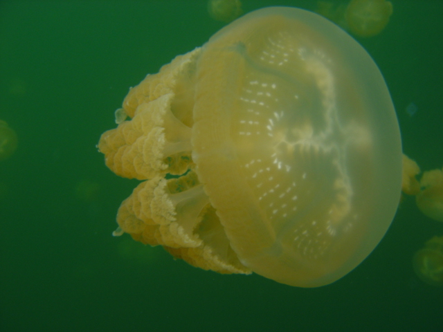 Front view of Mastigias sp. in Jellyfish Lake, Palau.